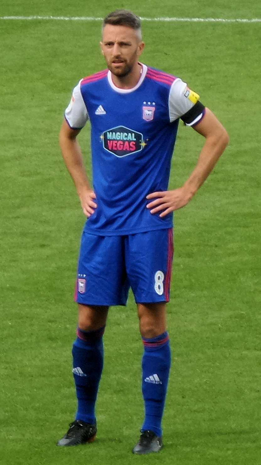 Cole Skuse playing for Ipswich Town at Rotherham United on 11 August 2018